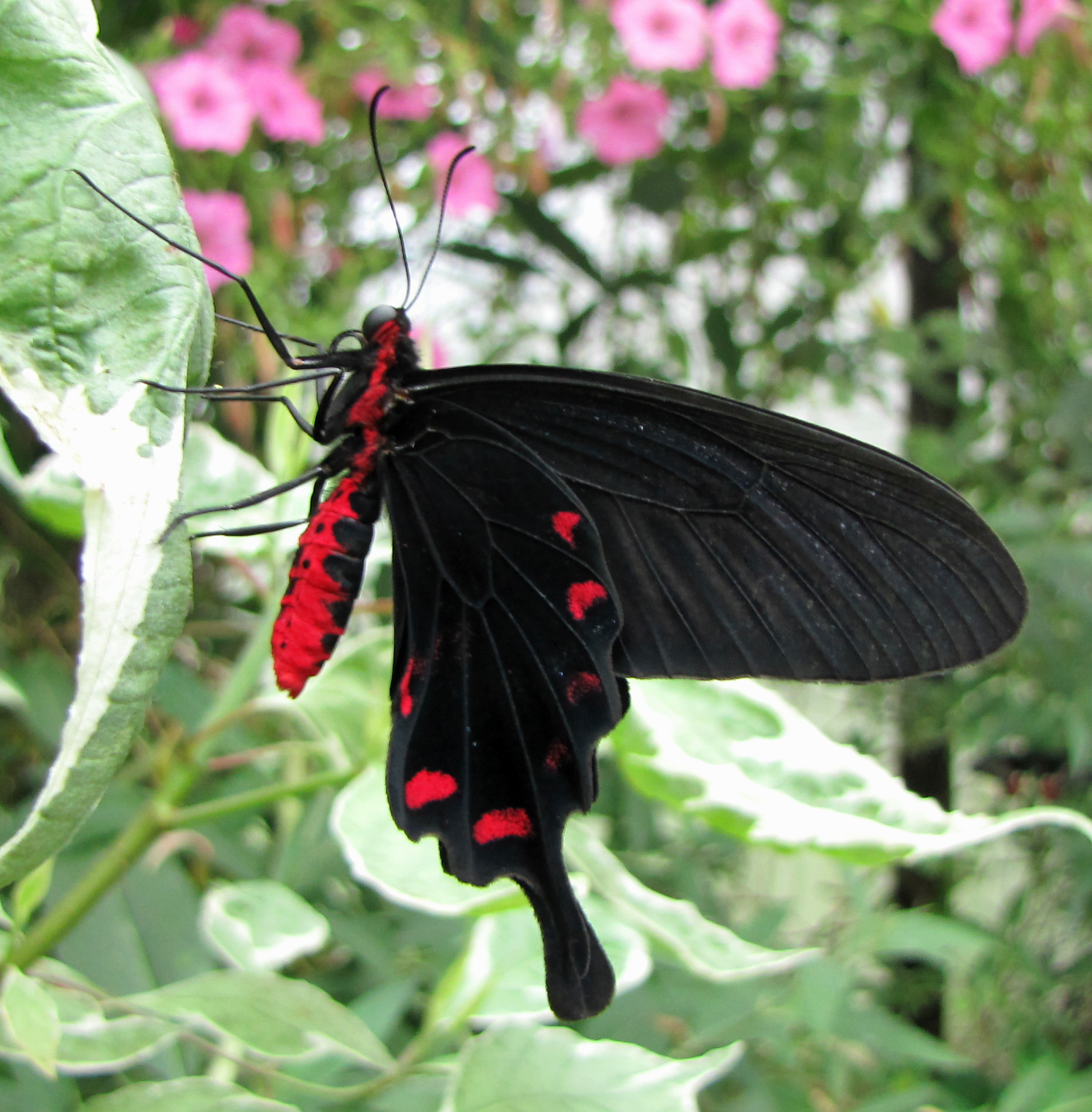 Pink Rose butterfly (Pachliopta kotzebuea), Deer Lake Insectarium, Deer Lake, Newfoundland and Labrador